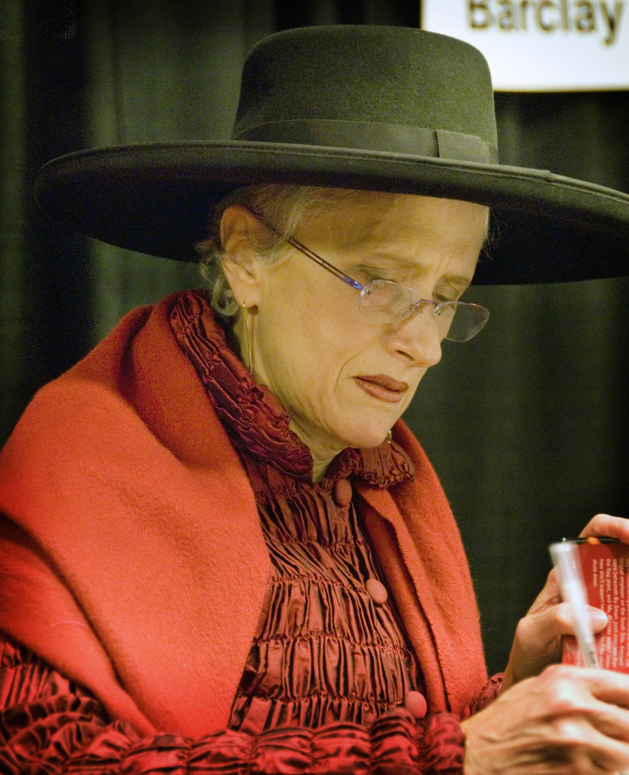 Sara Paretsky at Bouchercon 2009 in Indianapolis, Indiana.